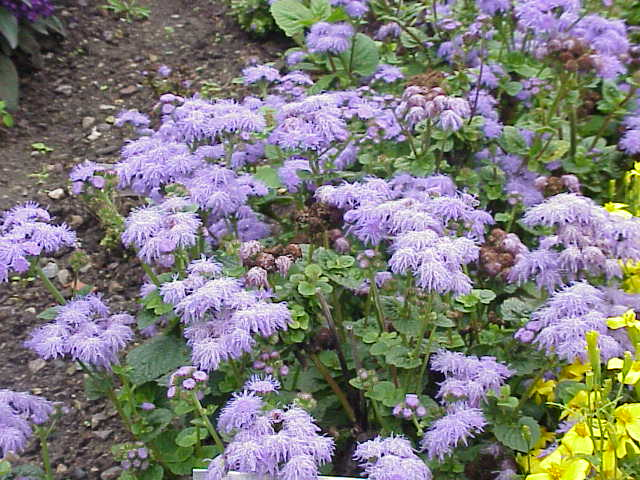 Species: Ageratum houstonianum Family: Compositae Image No. 1